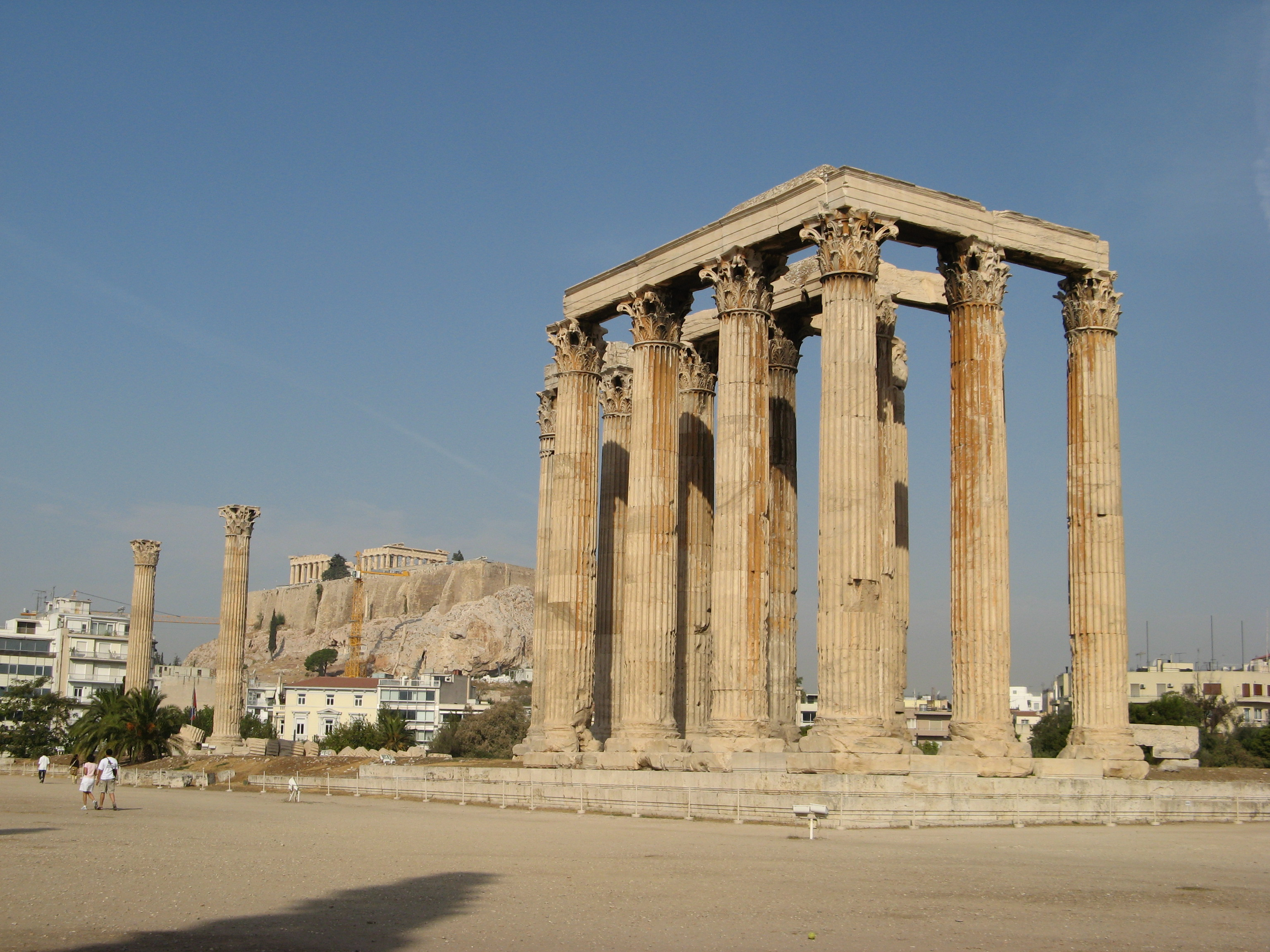 Temple of Olympian Zeus in Athens with the Acropolis in the background